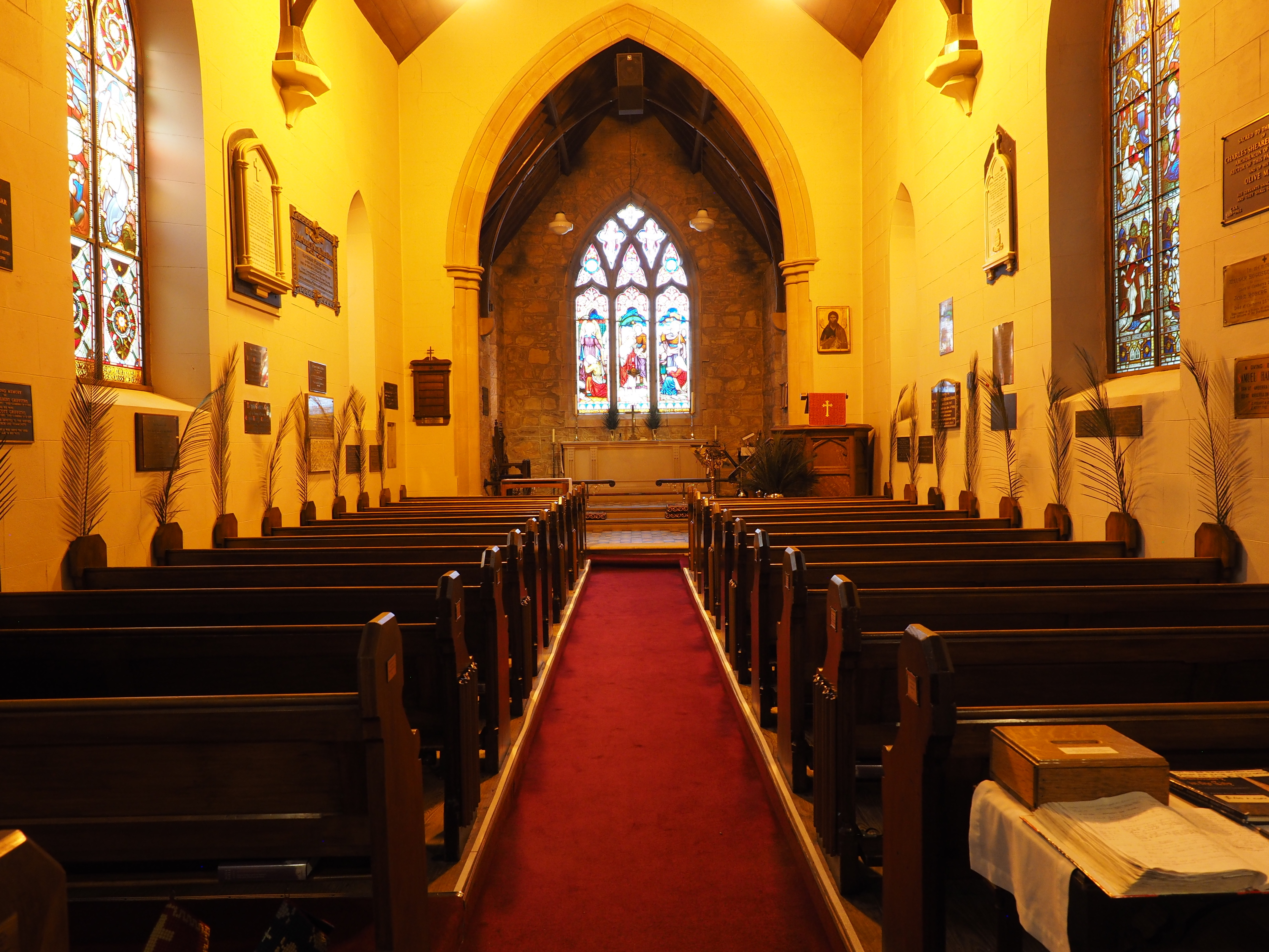 The interior of St John the Baptist Church